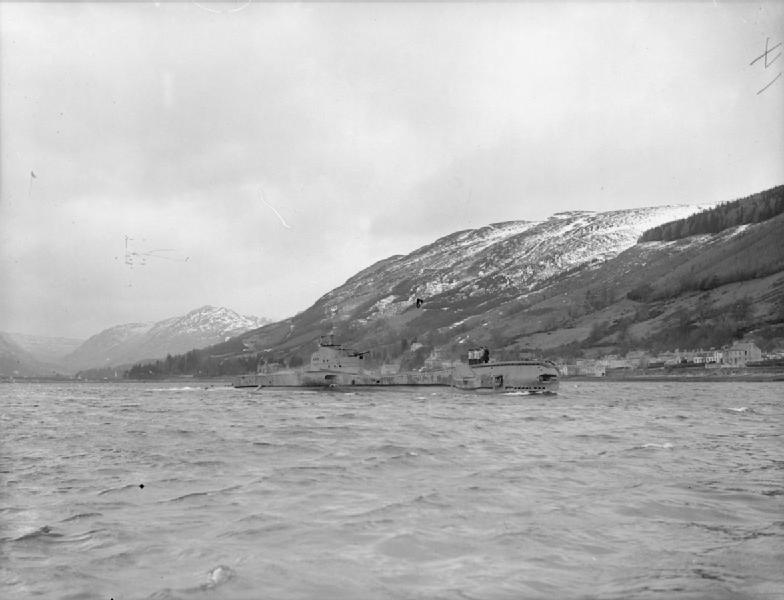 HMS TALISMAN seen arriving home after a successful period of service in the Mediterranean.